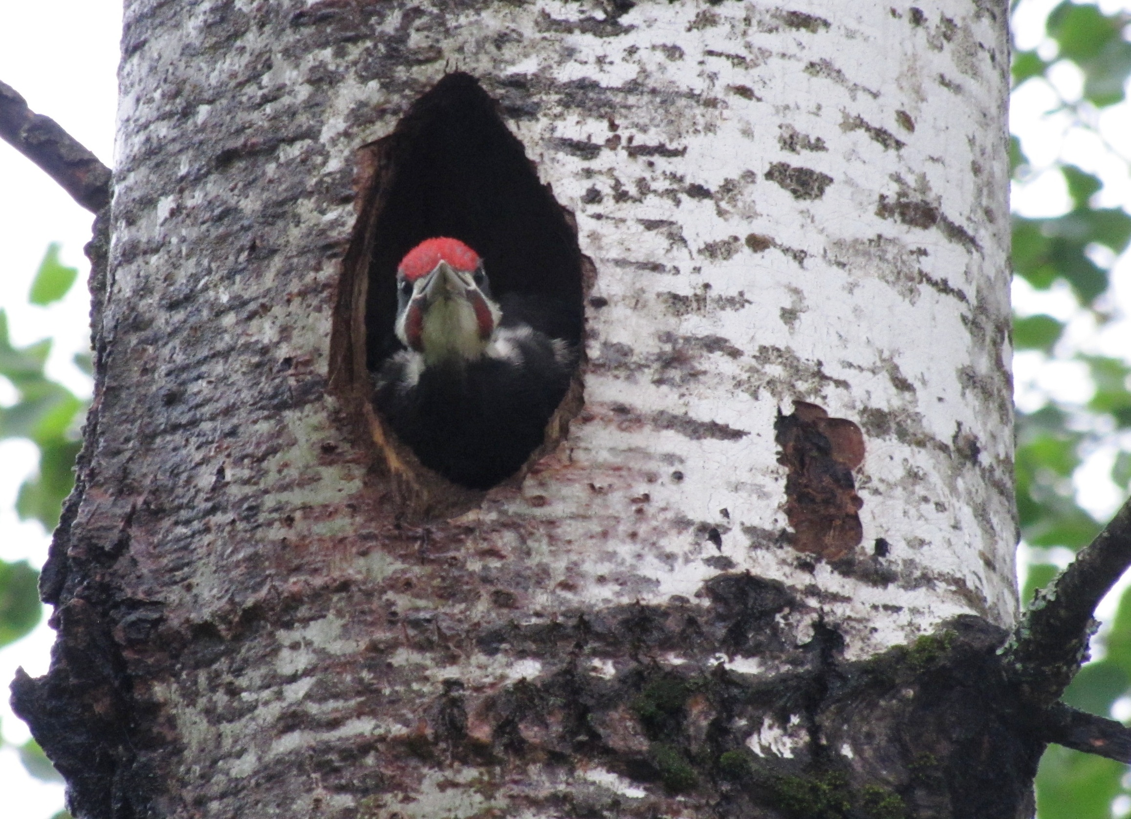 A Pileated Woodpecker chick sticks his head out to beg from its parents. This little guy is nearly fledged, as you can see by his extensive feathering. ~ Intern Karen